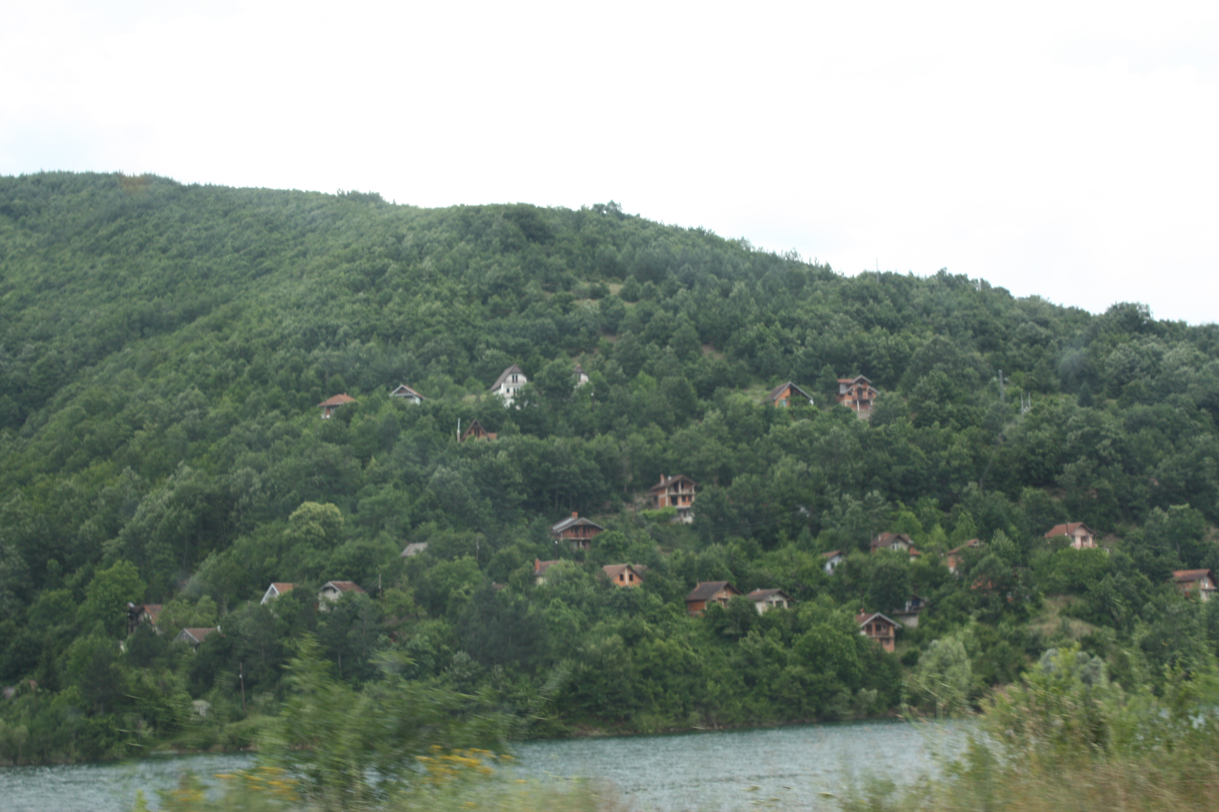 Globočica, Macedonia